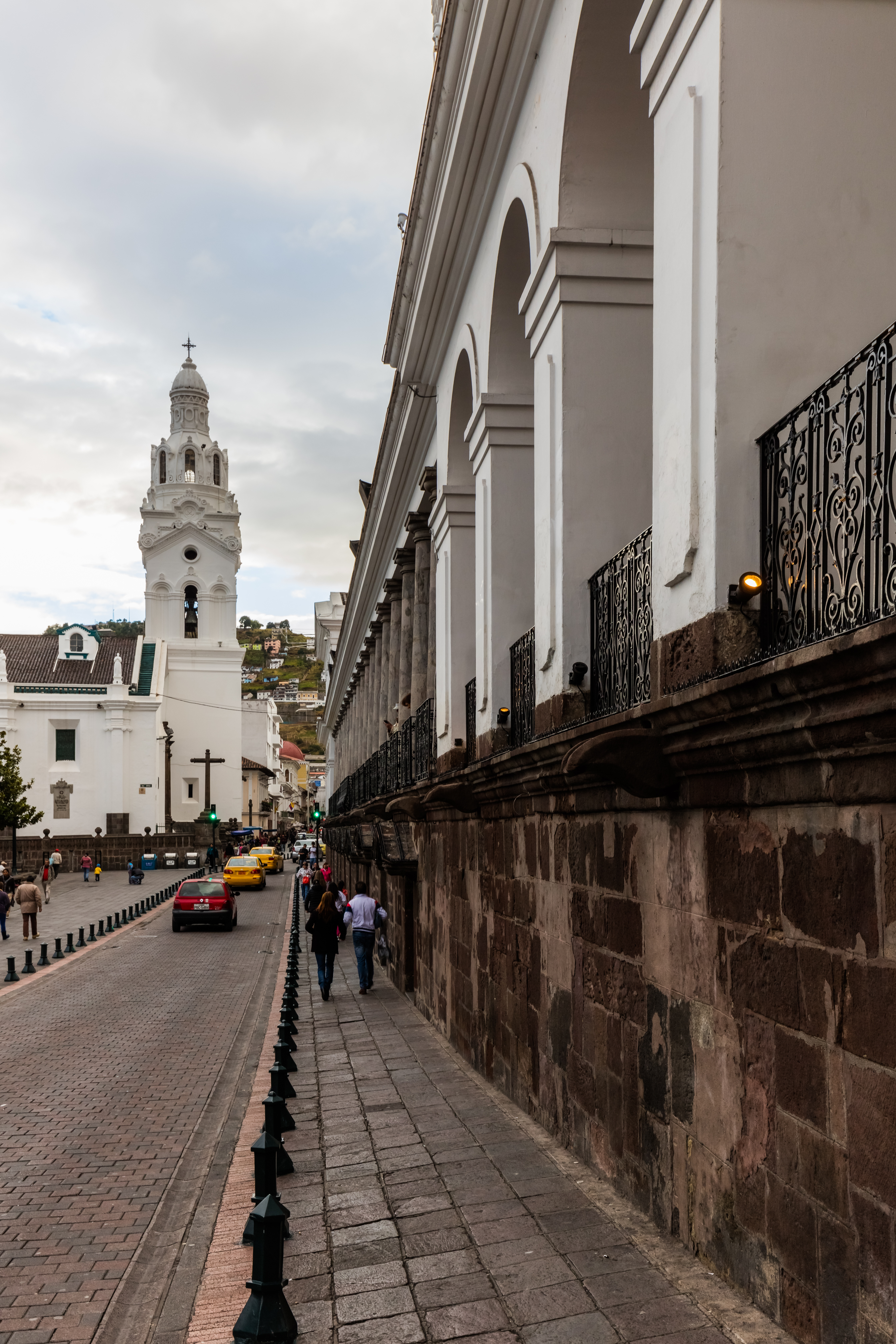 Carandolet Palace, Quito, Ecuador